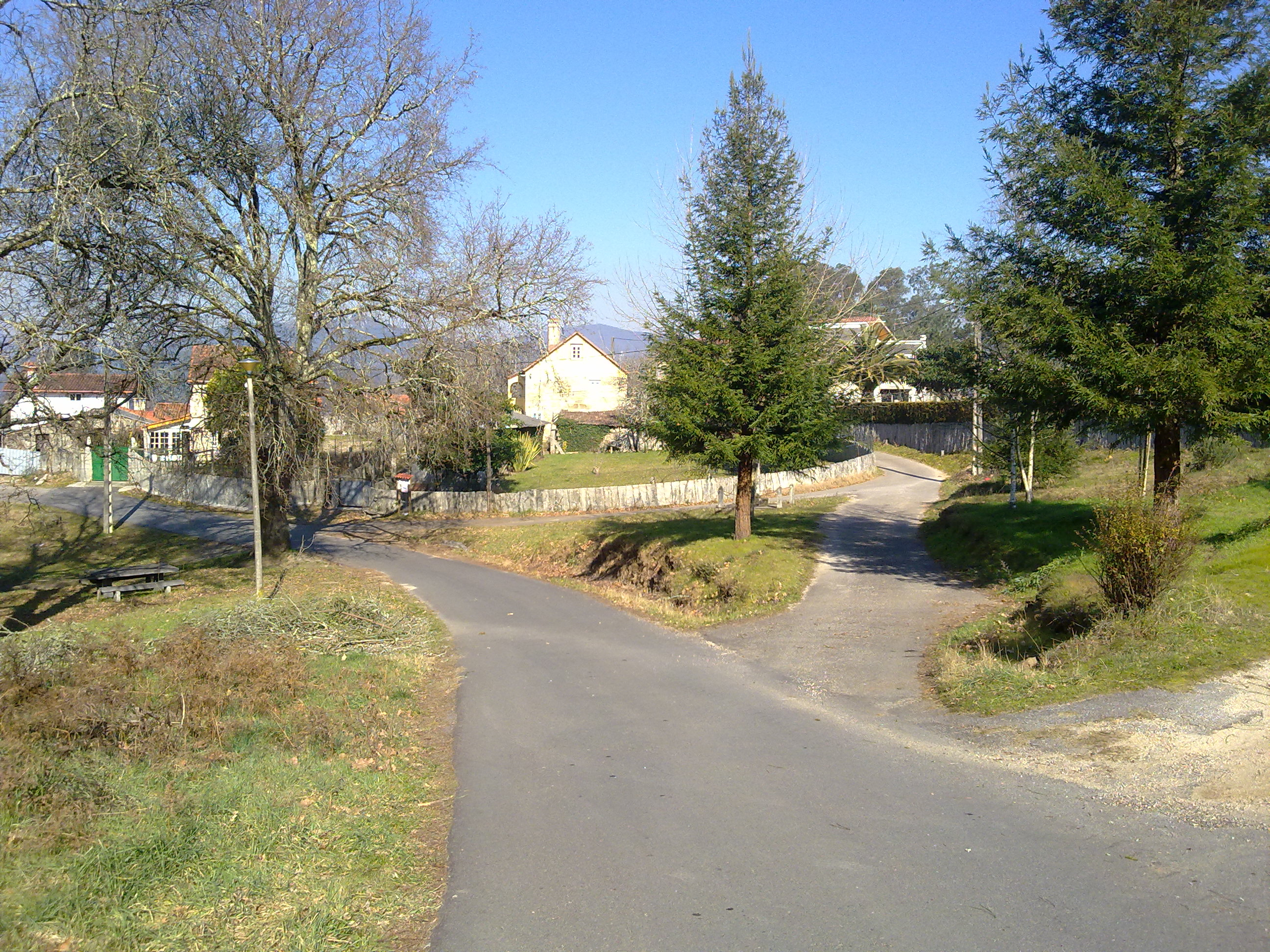 Overview of As Cernadas grove in Lira village (Salvaterra de Miño), Galicia